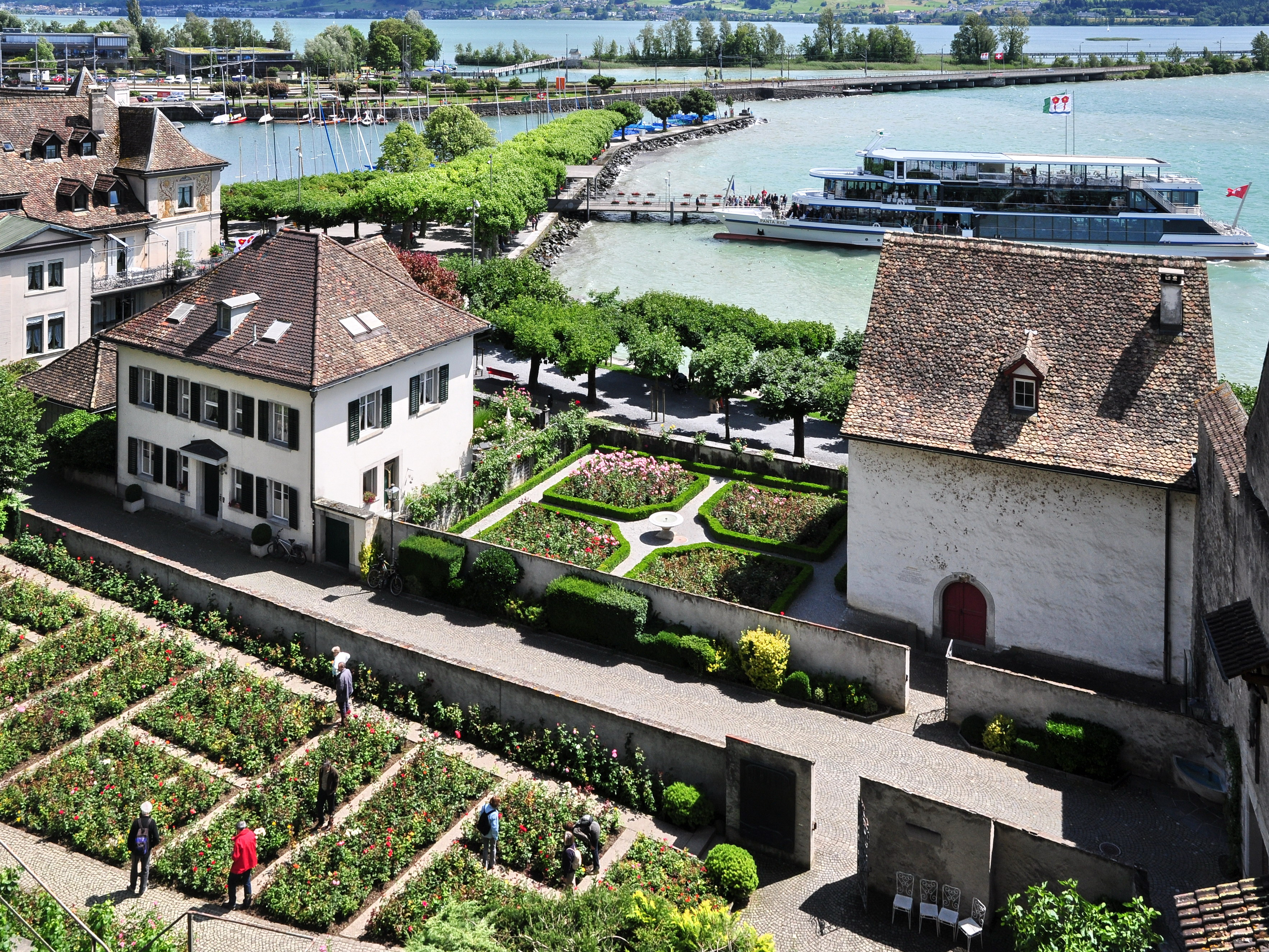 Rapperswil (Switzerland) : Altstadt and harbour, Zürichsee-Schifffahrtsgesellschaft (ZSG) motorship Panta Rhei at the landing gate, focus on Einsiedlerhaus and the rose garden, and, in the background, the wooden bridge (Holzbrücke) on Obersee and Seedamm, as seen from the Lindenhof hill towards the castle (Schloss)